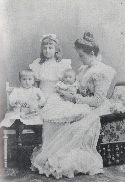 Grand Duchess Milica Nikolaevna of Russia with her children (from left to right: Roman, Marina, Nadezhda and Milica)